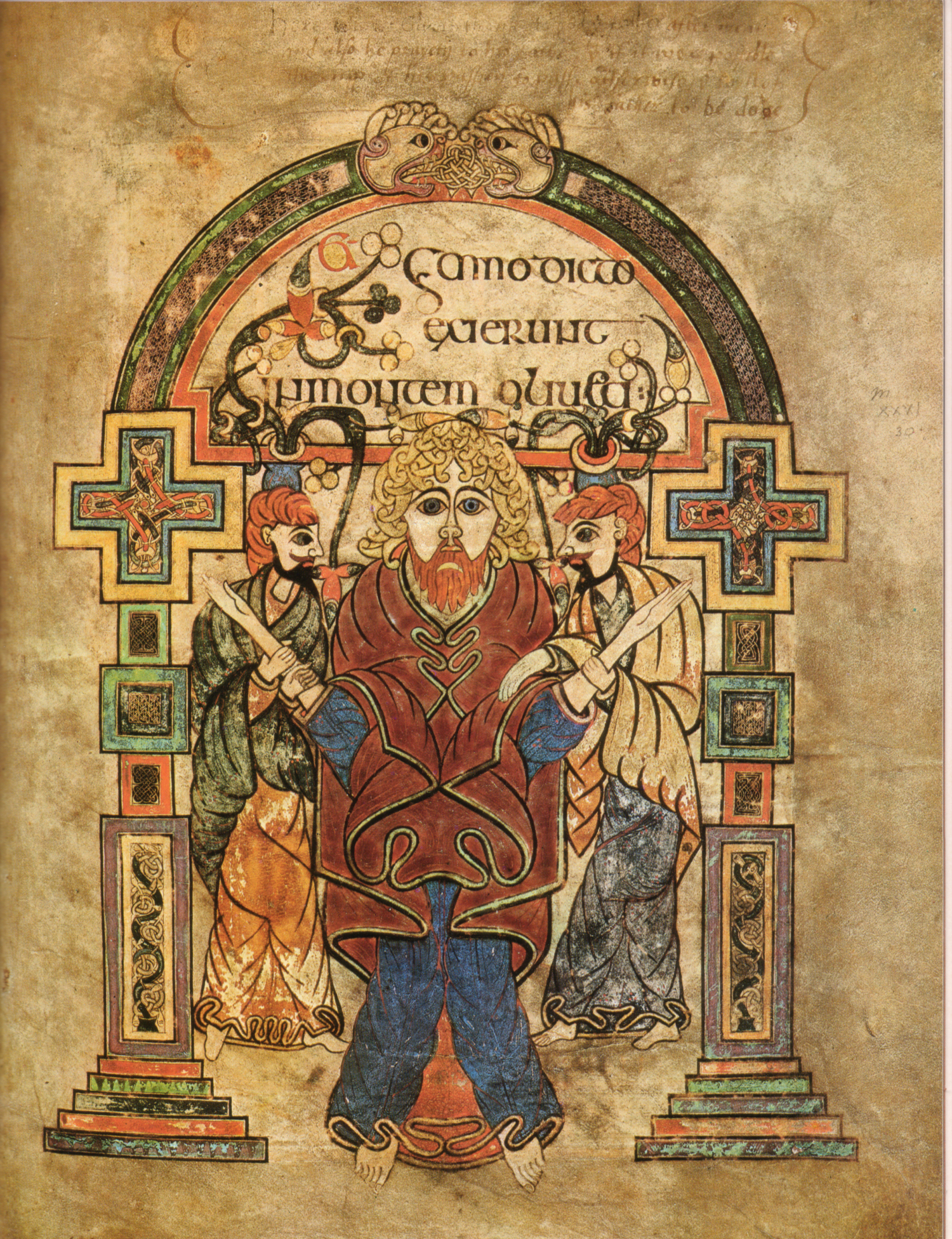 Book of Kells, Folio 114v, Arrest of Christ.